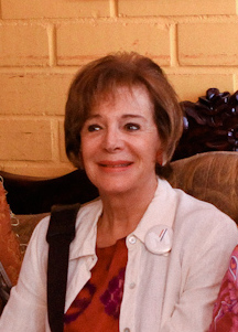 Michelle Bachelet y la actriz Liliana Ross.